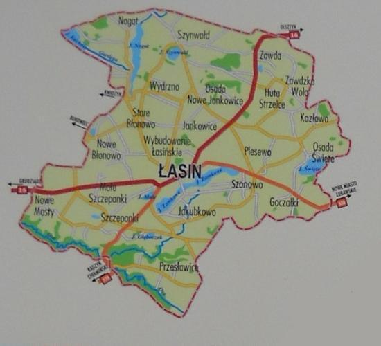 Gmina Łasin